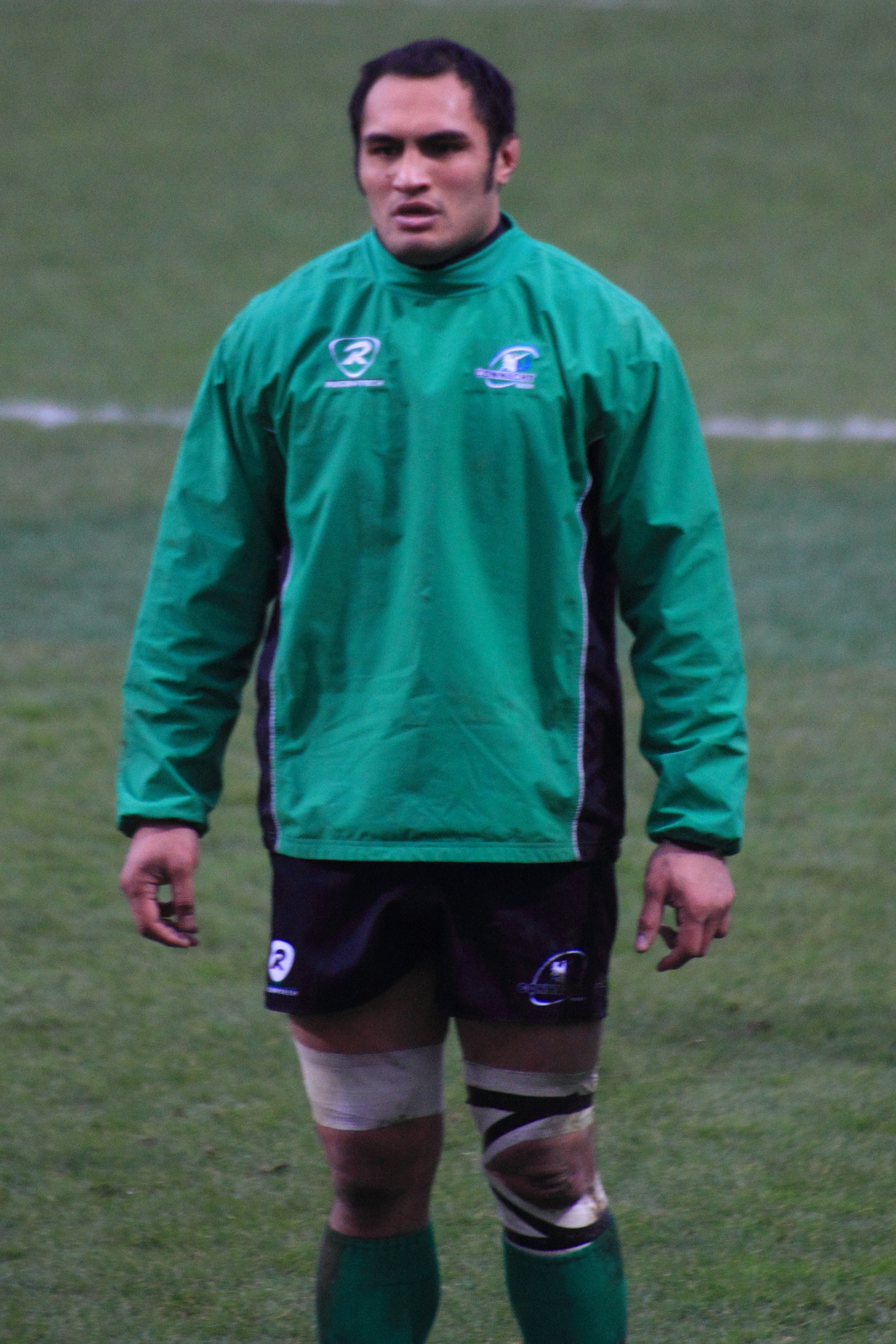 Heineken Cup 2011-2012 — 14 January 2012, Stade Ernest-Wallon. Match between: Stade toulousain — Connacht Rugby